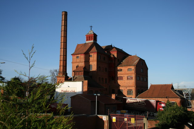 Murphy and Sons, Nottingham, New Year's Day 2007. This was a crisp January day and the winter sun caught Murphy's Prince of Wales Brewery against a clear blue sky.